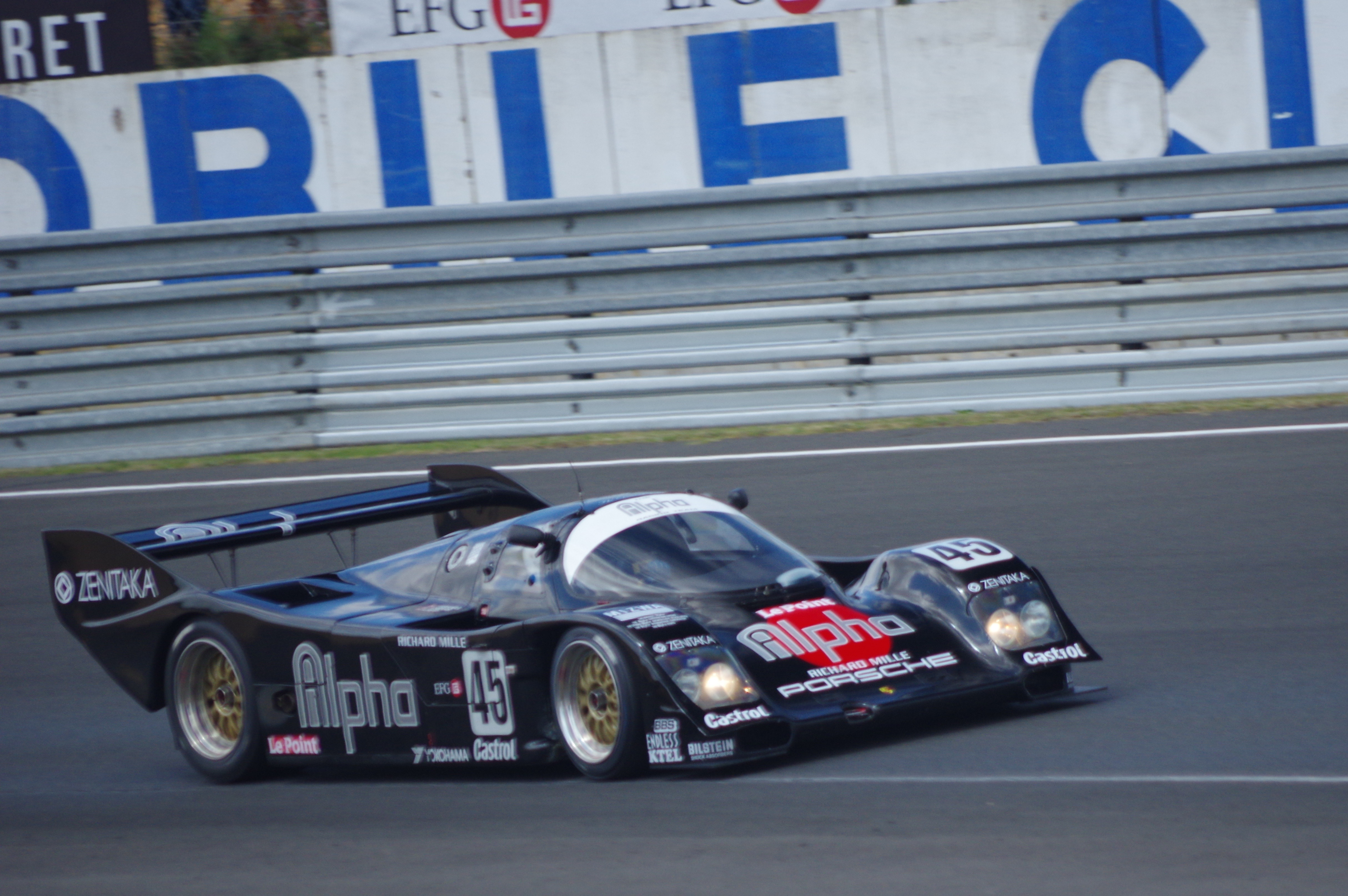 Alpha Racing Team's Porsche 962 at the 2016 Le Mans Classic